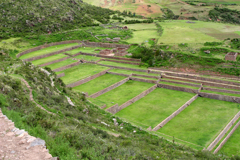 Tipon